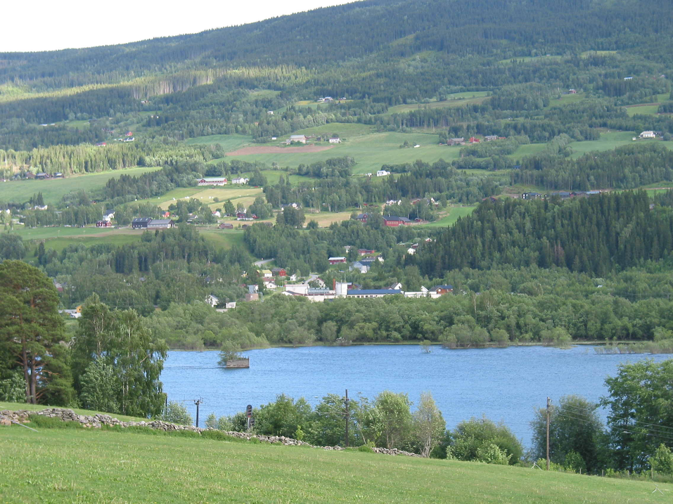 Lia in Sør-Fron, seen from Hundorp. The body of water is Gudbrandsdalslågen.